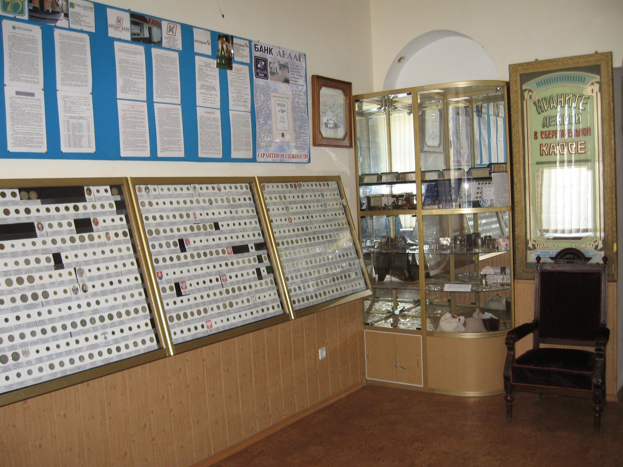 Feodosia. Museum of money. 2nd exposition.